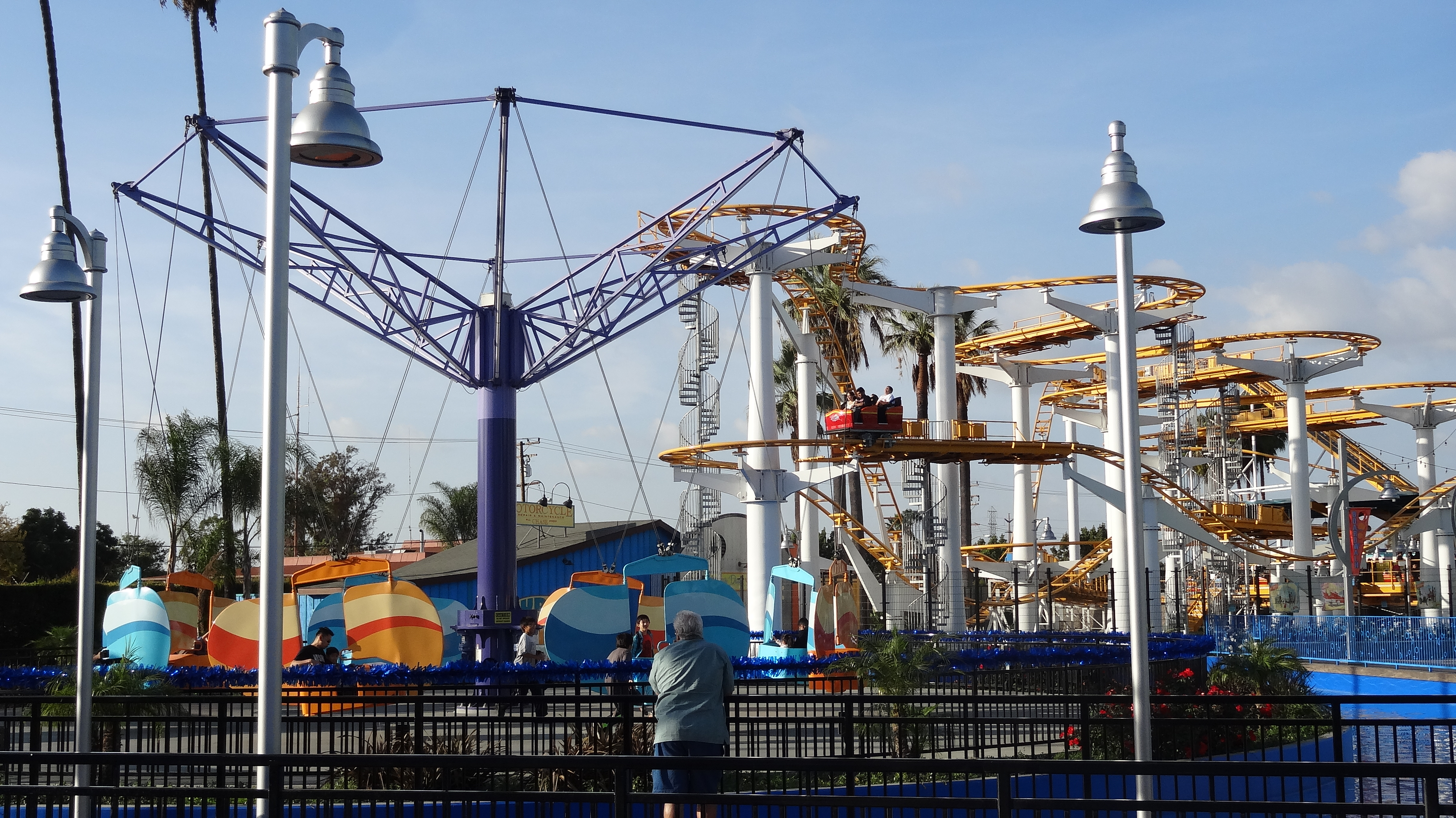 Coast Rider and Surfside Gilders.